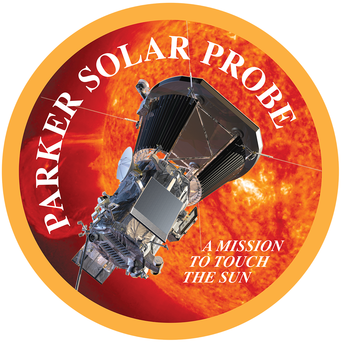 The official mission insignia for the Parker Solar Probe mission, a in-situ heliophysics orbiter developed by the Applied Physics Laboratory and NASA, and launched in 2018.